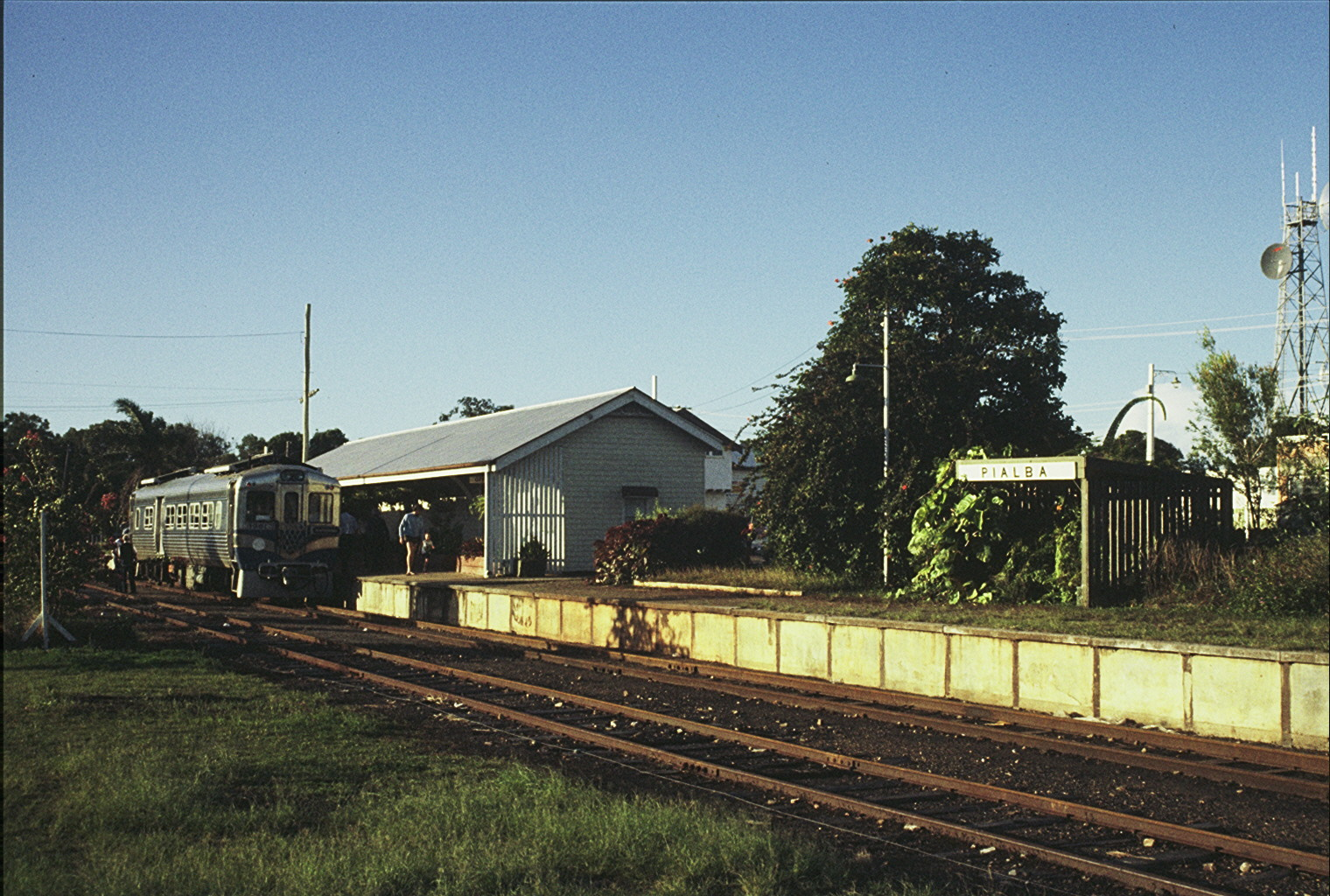 QR RM1901 at Pialba station, ~1990